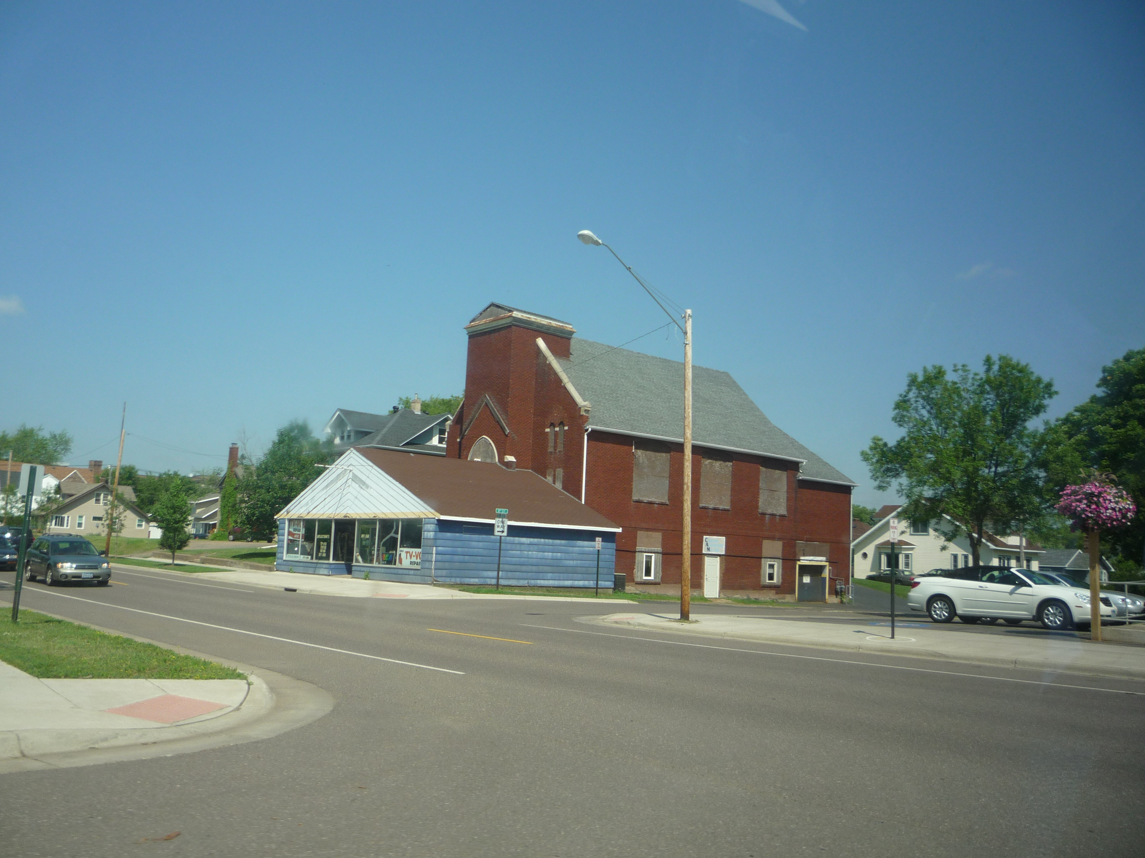 Downtown Cloquet, Minnesota.